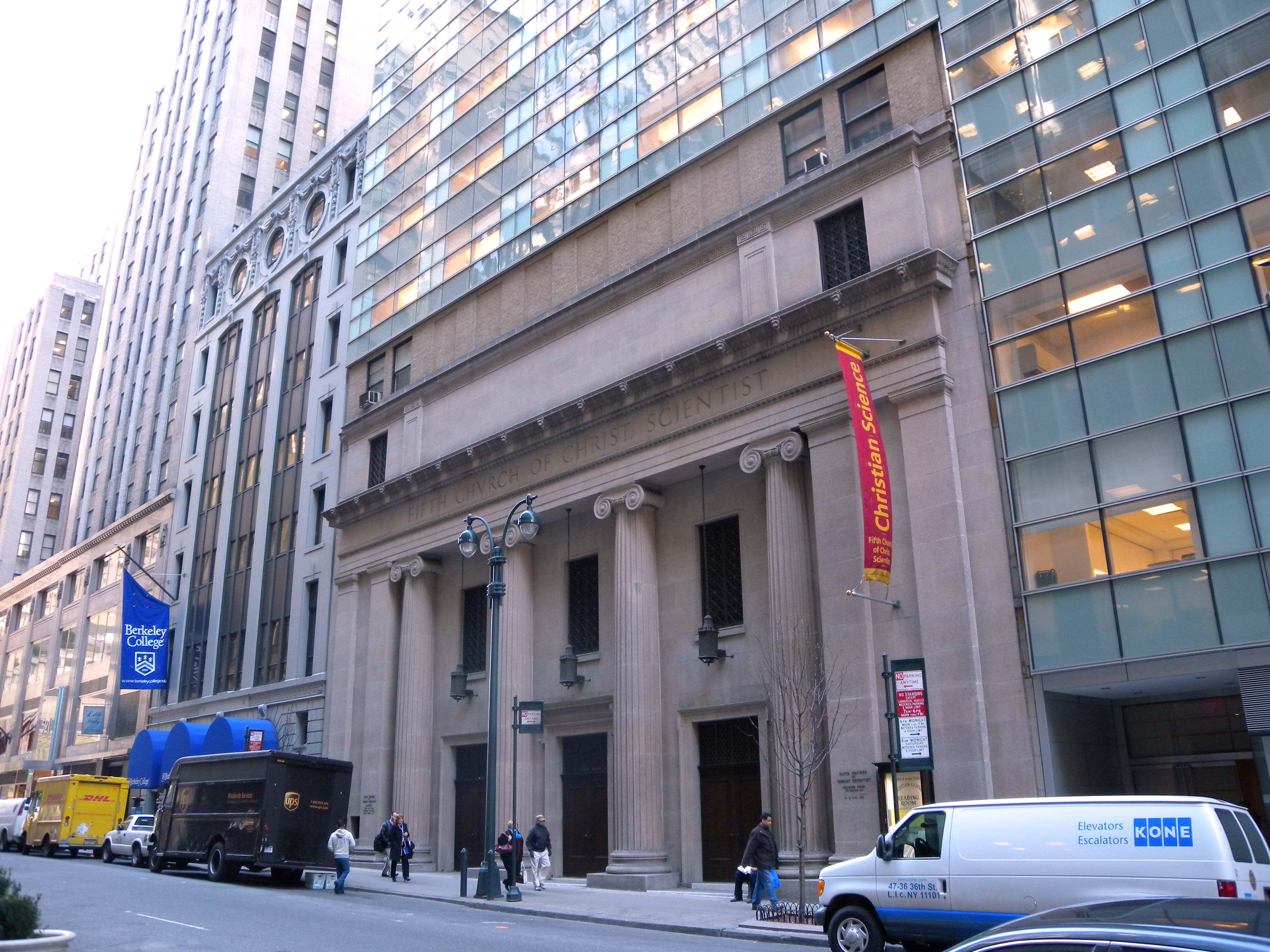 Looking north across 43d Street at Fifth Church of Christ, Scientist, NY.